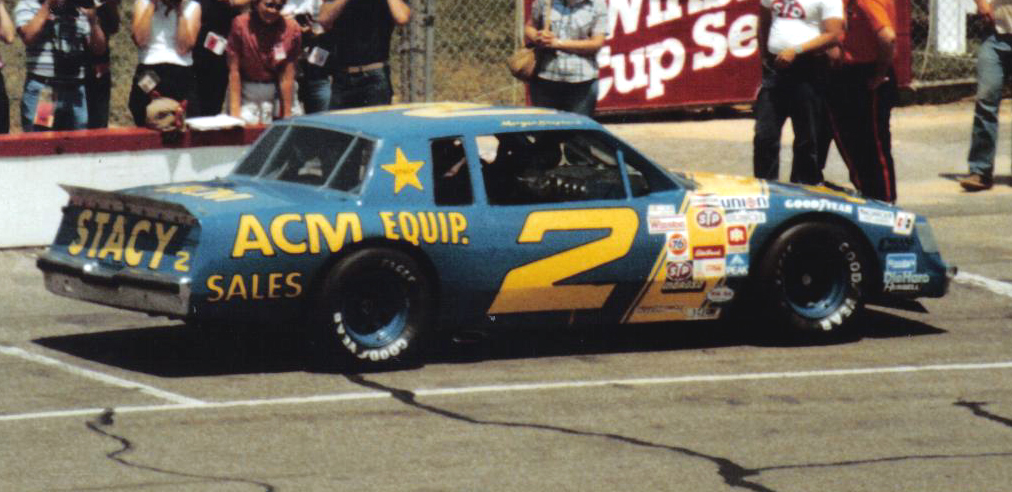 The Jim Stacy owned AMC Equipment Buick of Morgan Sgepherd finished 15th in the 1983 Van Scoy 500.Morgan Shepherd #2